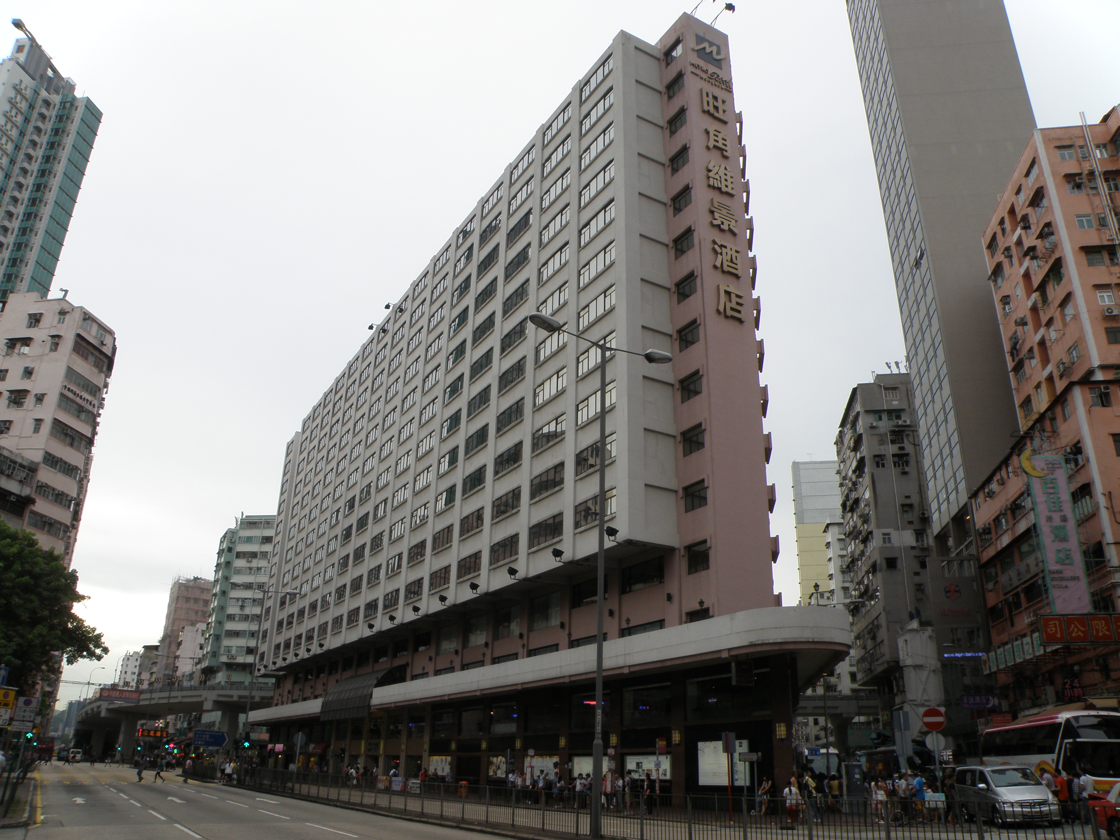 Metropark Hotel Mongkok in Prince Edward, Hong Kong.